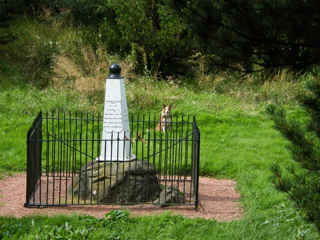 Peden's Stane. The stone on which this cast iron monument stands marks the traditional position of a Covenanters' meeting places, at which Alexander Peden preached. The National Covenant of 1638, written in Greyfriars Church in Edinburgh on 28 February 1638, called for all Scots to oppose Roman Catholicism and the policies of Charles I. One of the famous Covenanters was Alexander Peden from Ayrshire. Peden upheld the National Covenant, believing that God, not the king, was the head of the Church. In order to continue his rebellion, Peden wore a mask as a disguise when preaching at illegal outdoor services such as those that were held here. See also 881172